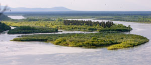 author: Erin McKittrick source URL